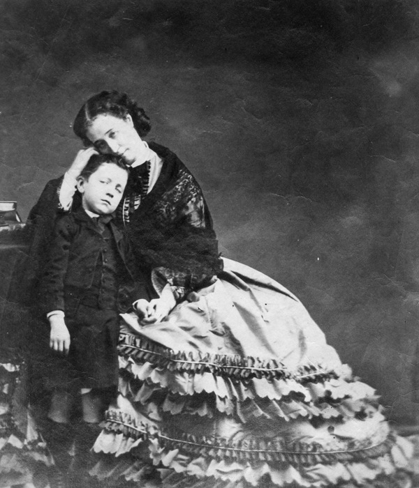 Eugenie, Empress of the French in 1862.